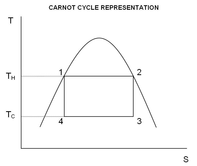 Carnot Cycle